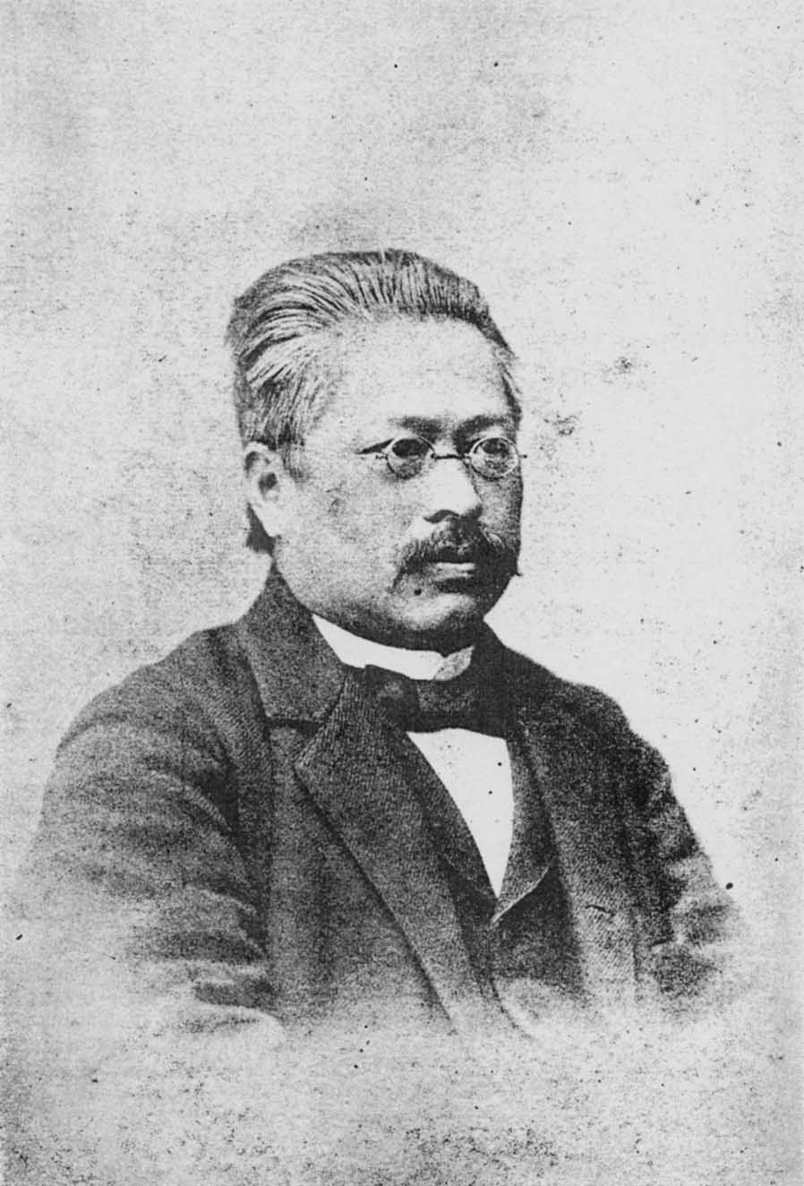 Mr. Hideo Takamine, director of the Women's Higher Normal School.